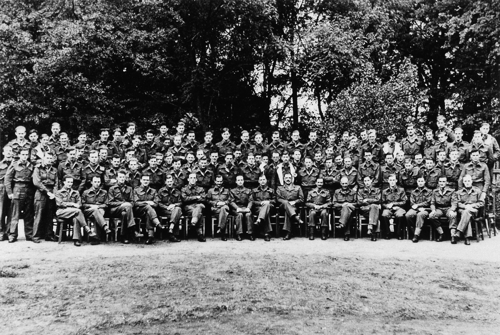 Group photograph of all London medical students who went to Belsen following its liberation by the Allies. Archives & Manuscripts Keywords: belsen concentration camp; Allen Percival Prior; Bergen-Belsen